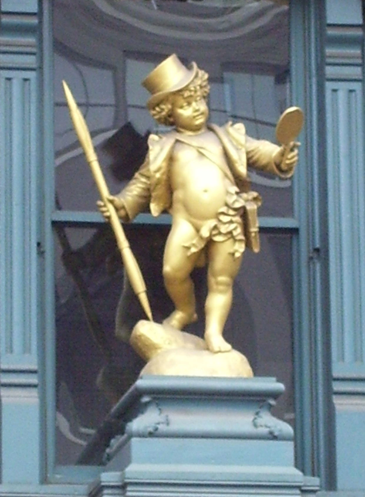 The gilded statue of Puck by sculptor Henry Baerer over the front entrance of the Puck Building